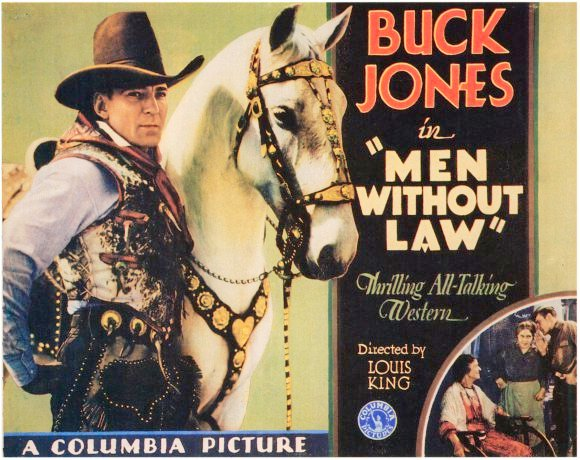 This is a lobby card for the 1930 American Western film Men Without Law.